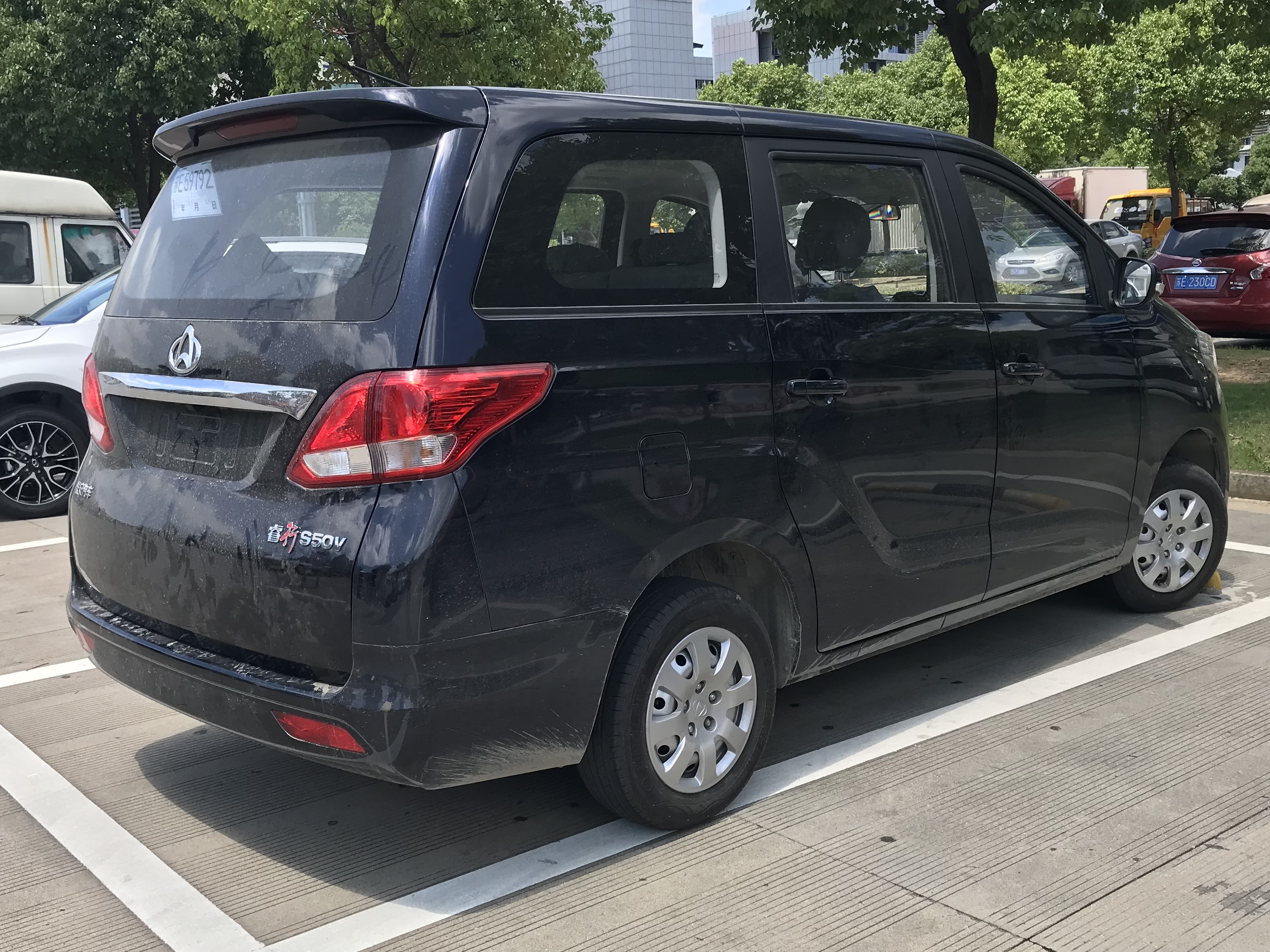 Chana Ruixing S50V in Suzhou